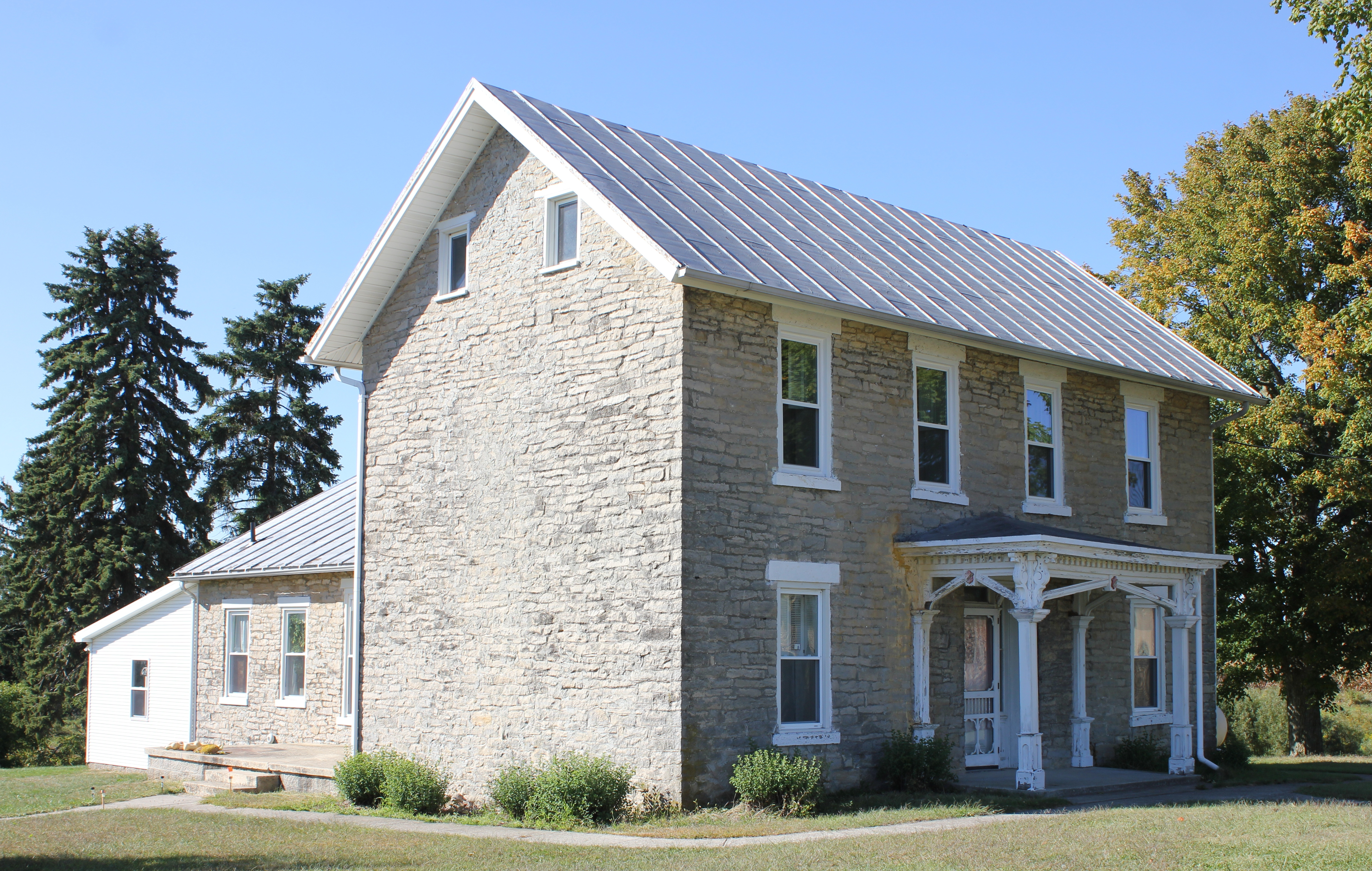 Samuel Cooper Farmhouse, 695 Lawrence Rd., south of Radnor Radnor Township